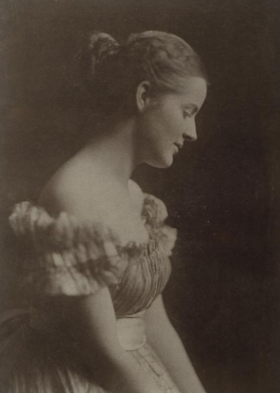 Title Elizabeth Bradford (du Pont) Bayard, 1880- Date Created (start) 1900 Date Created (end) 1920 Former owner Du Pont, Pierre S. (Pierre Samuel), 1870-1954 Subject(s) - Name Bayard, Elizabeth du Pont, 1880-1975 Find all items with name(s) Du Pont, Pierre S. (Pierre Samuel), 1870-1954 Bayard, Elizabeth du Pont, 1880-1975 Genre portrait photographs Language English Type of resource still image Extent 1 photographic print : b&w Repository Audiovisual Collections and Digital Initiatives Department, Hagley Museum and Library